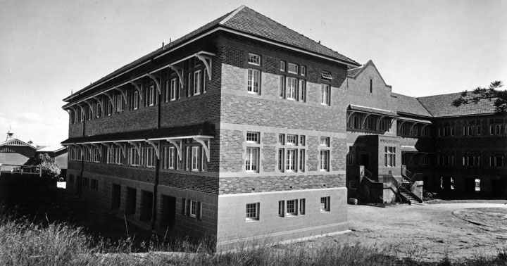 Nundah State School, Additional accommodation.